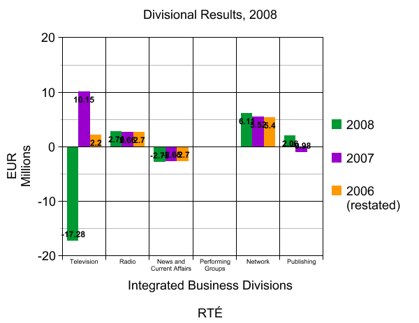 Divisional Results by IBD for RTÉ 2008 Ireland Profit Loss